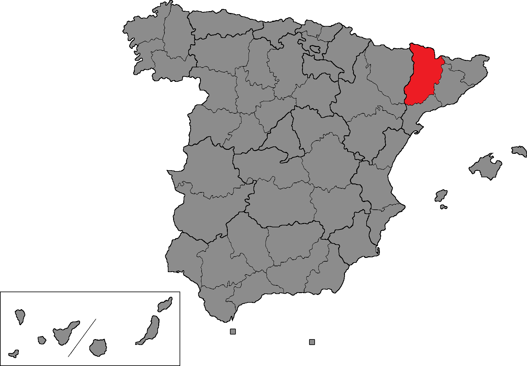 Spanish Congress of Deputies district of Lleida.